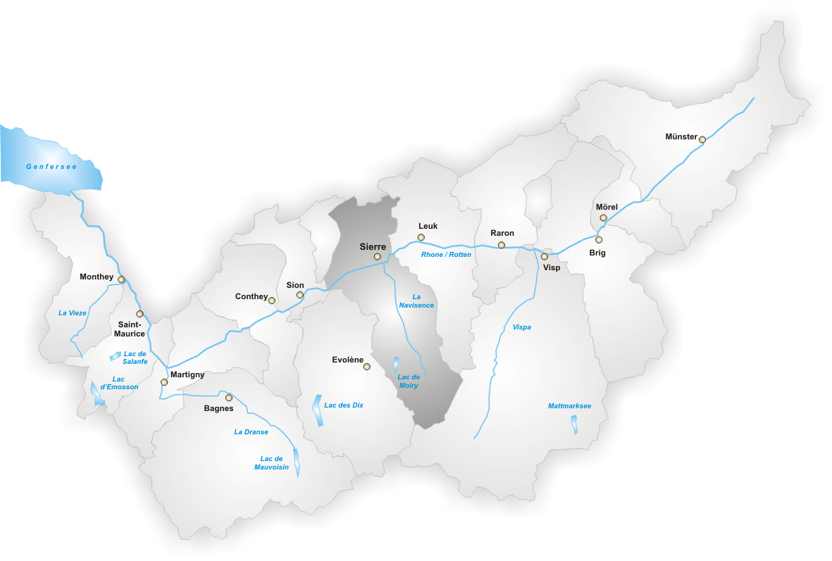 District Sierre